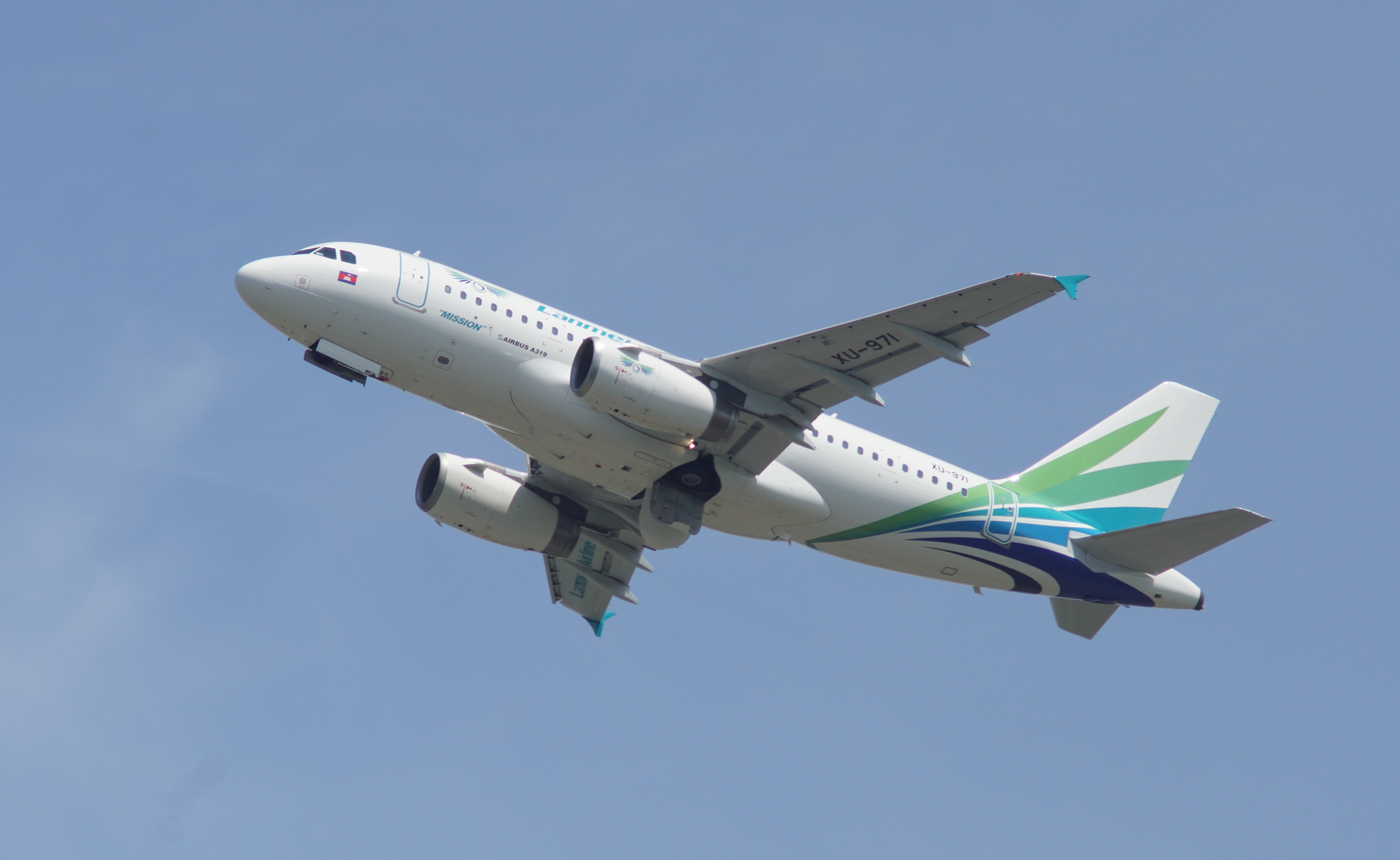 Lanmei Airlines Airbus A319 taking off from Suvarnabhumi Airport, Bangkok